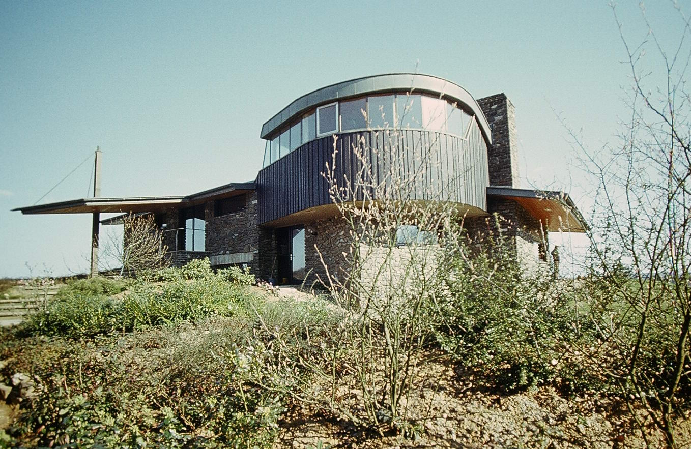 Chen Kuen Lee, Audry mansion (1969)